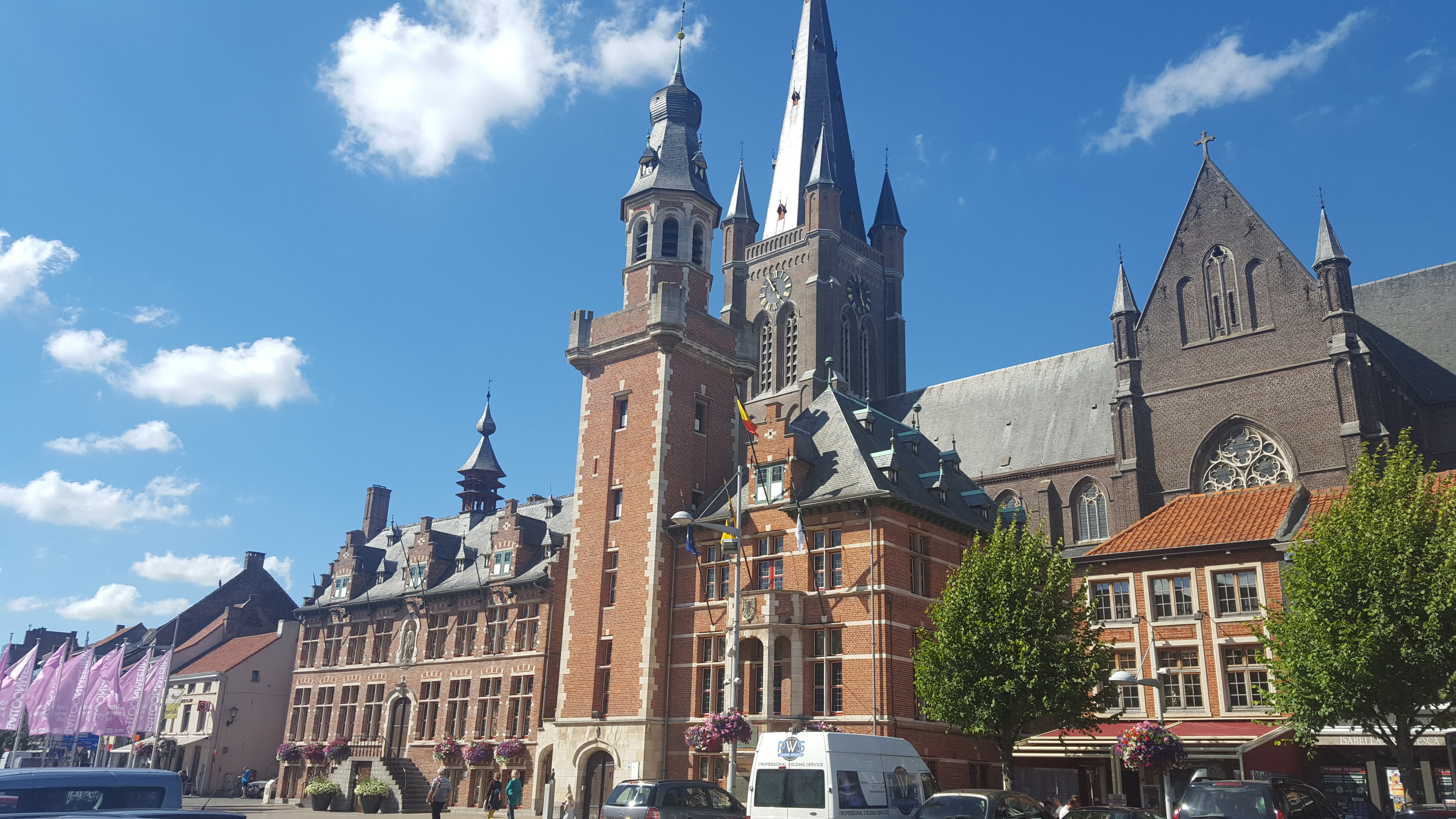 Belfry, town hall of Eeklo, Belgium